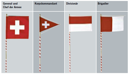 Command flags (fanions) of Swiss army general officers.